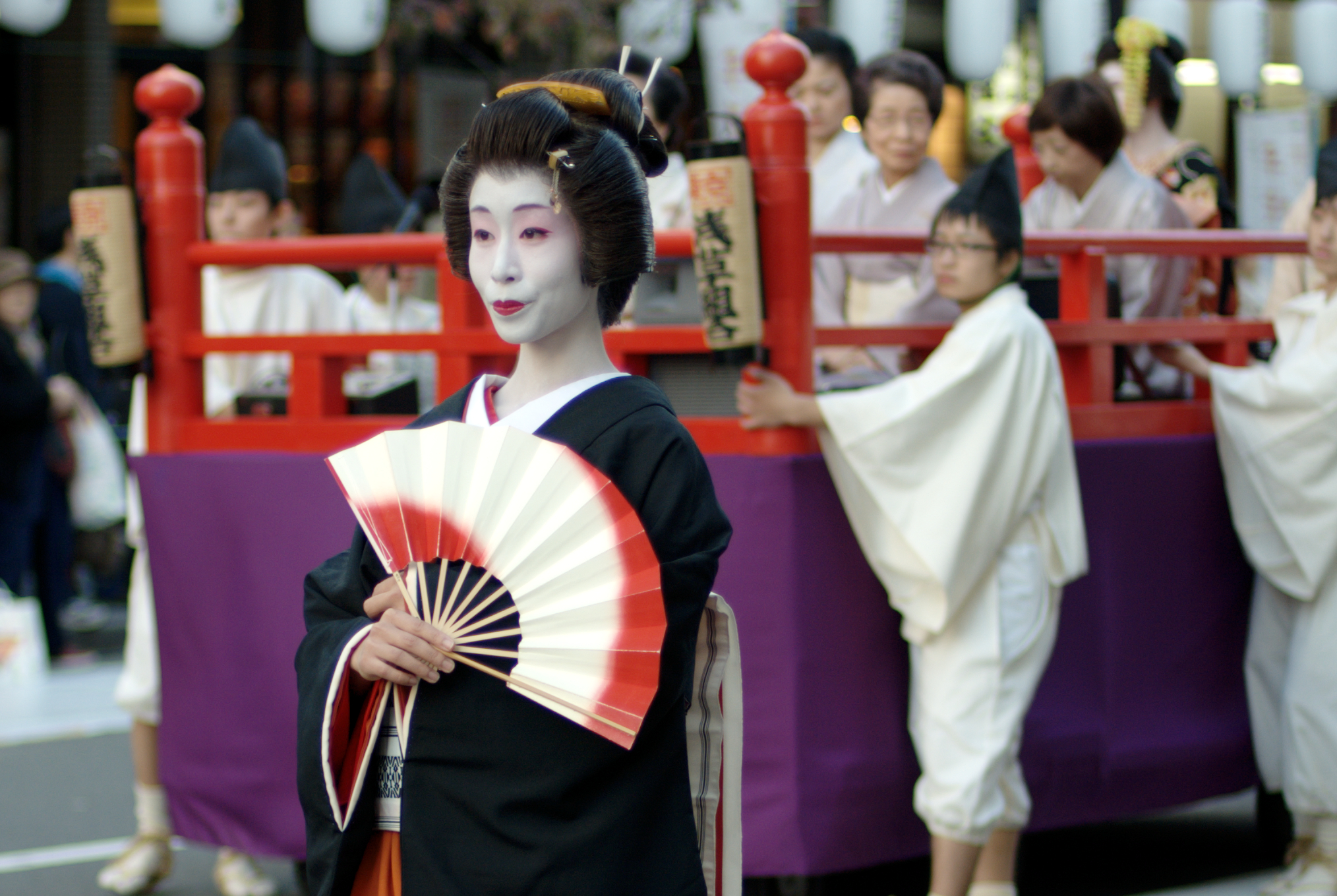 A geisha from Tokyo on matsuri.